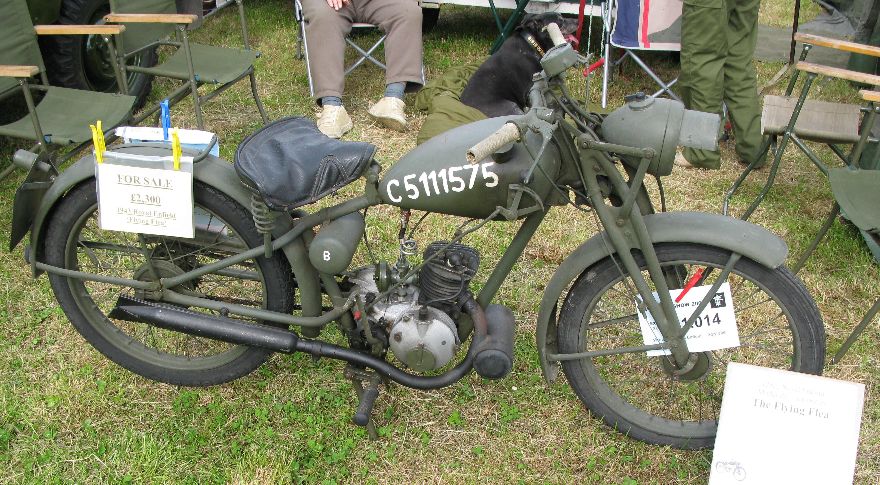 Photo of a Royal Enfield WD/RE motorbike AKA the flying flea